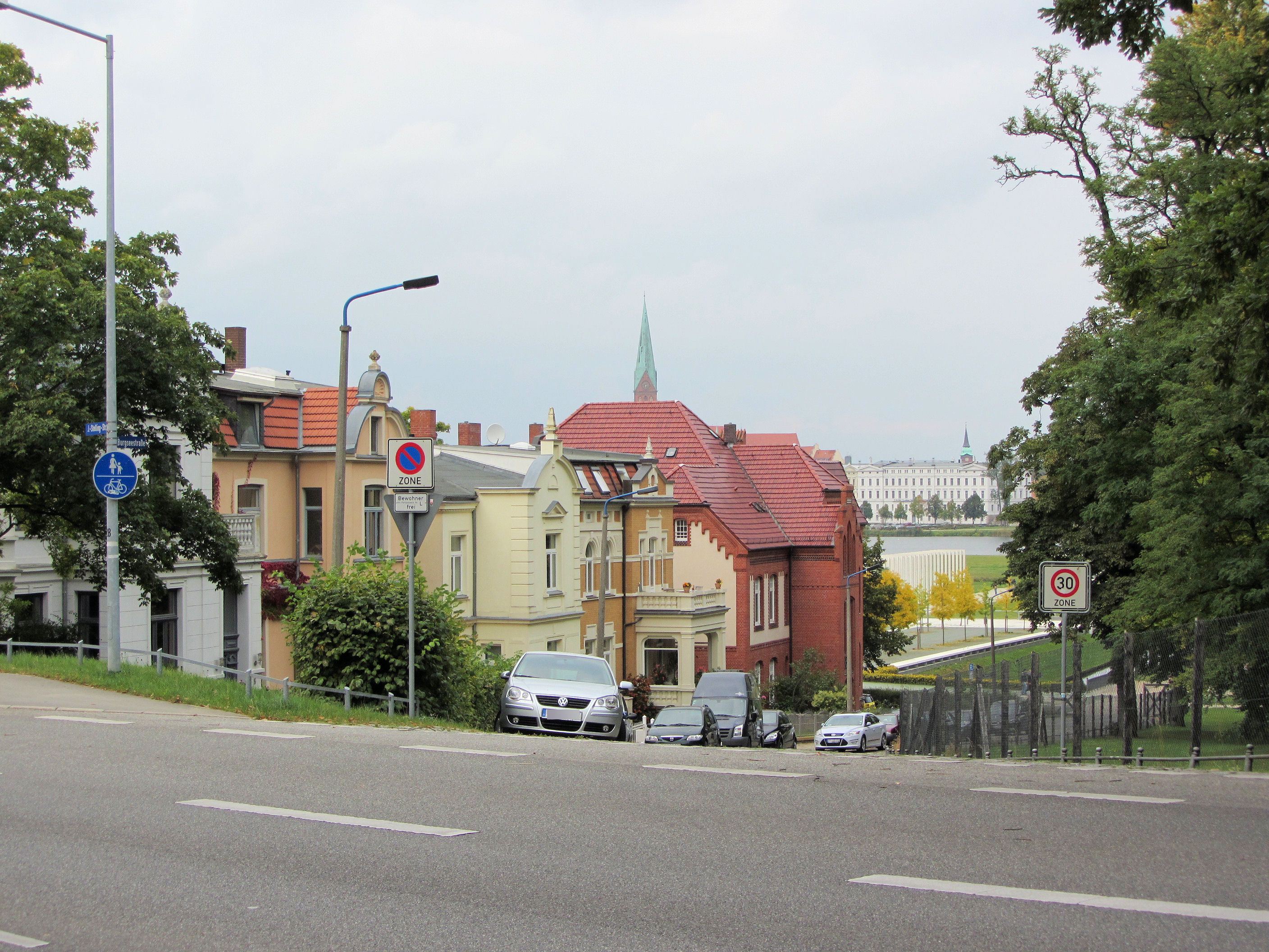 View to the Burgseestraße from the Johannes-Stelling-Straße in Schwerin, Mecklenburg-Vorpommern, Germany